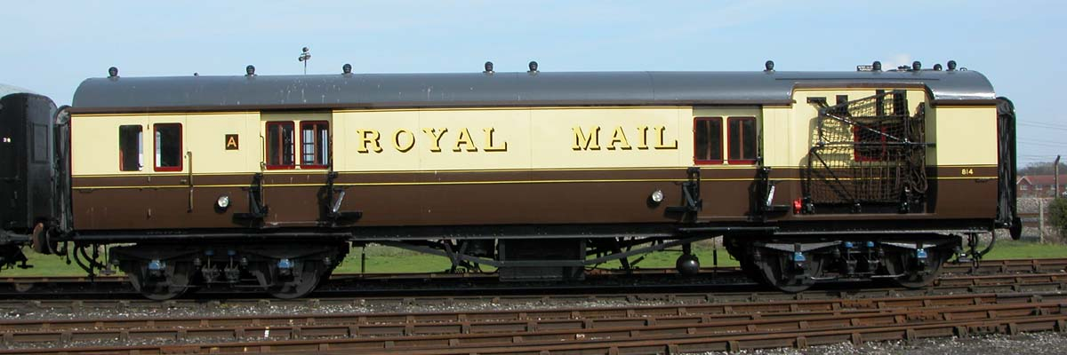 mail carriage; at Didcot Railway Centre; 2005/04. By William M. Connolley.